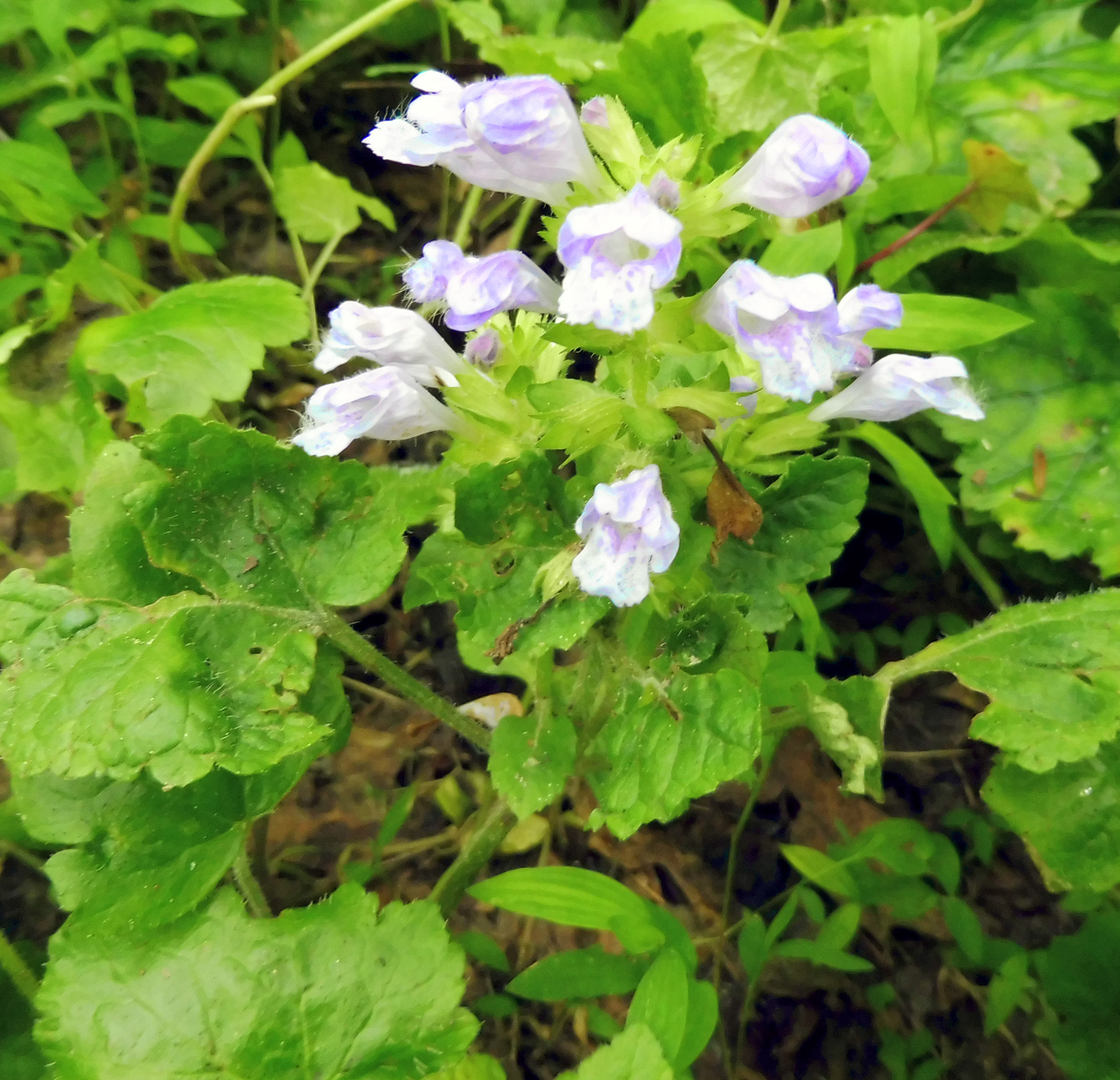 Meehania cordata, in cool banks in front of Stab Cave, Pulaski County, Kentucky.